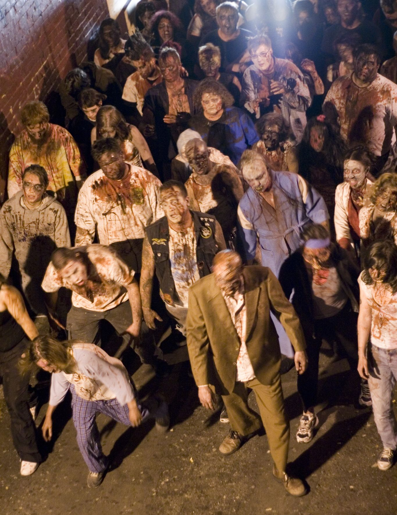 Group of zombies, shooting of the film Meat Market 3. This photo was taken during the shooting of the film and is not taken from the actual film. The author of the photo and the person responsible for taking the photos released the photos under the CC licence.